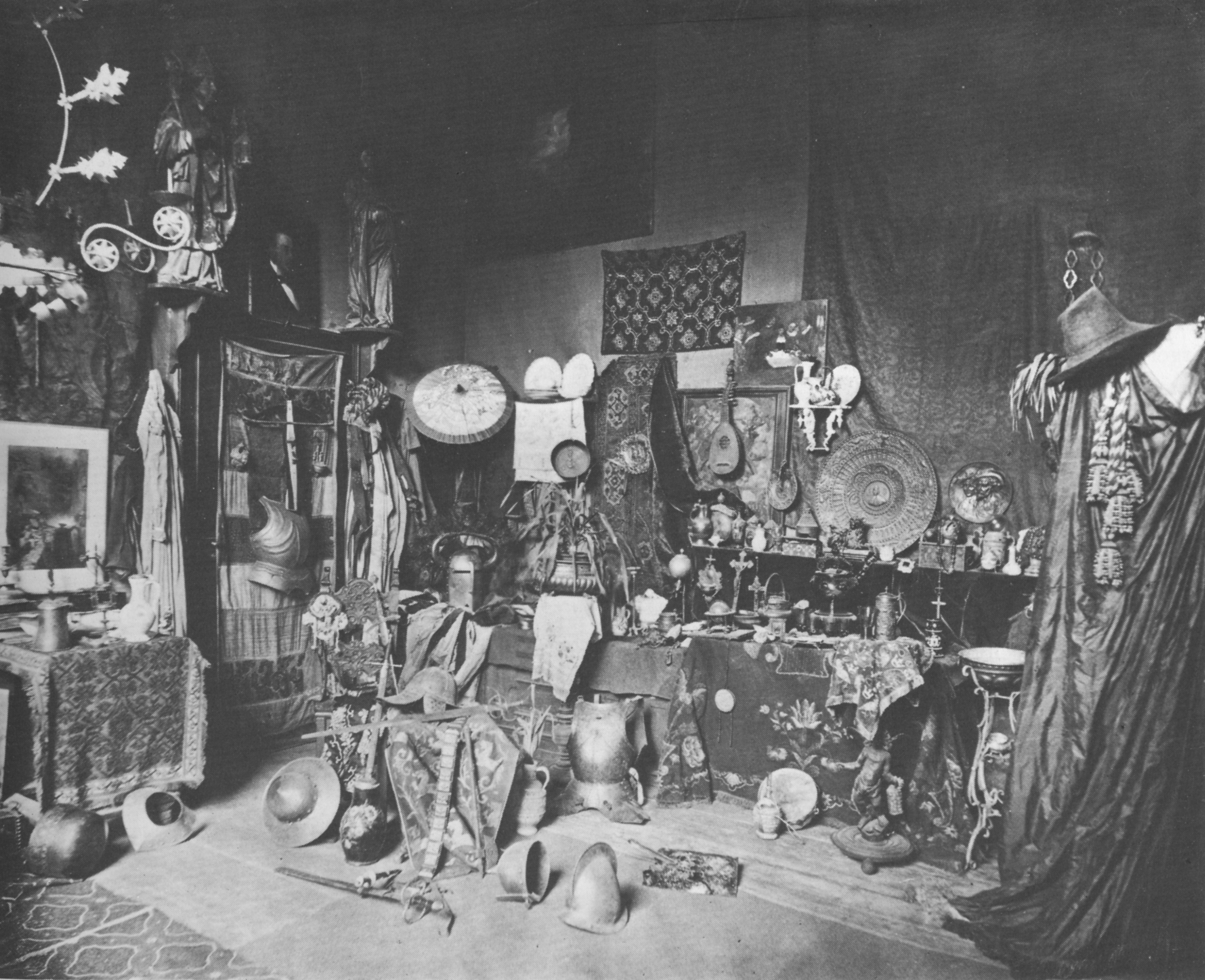 Photo of Swedish history painter Carl Gustaf Hellqvist's (1851-1890) studio in München. From the collection of Nationalmuseum in Stockholm, Sweden.